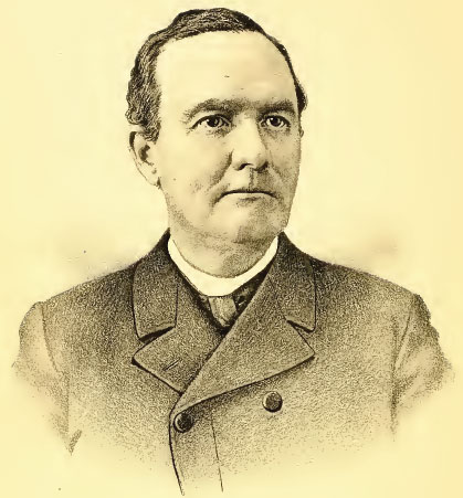 Engraving of Kentucky Congressman Polk Laffoon